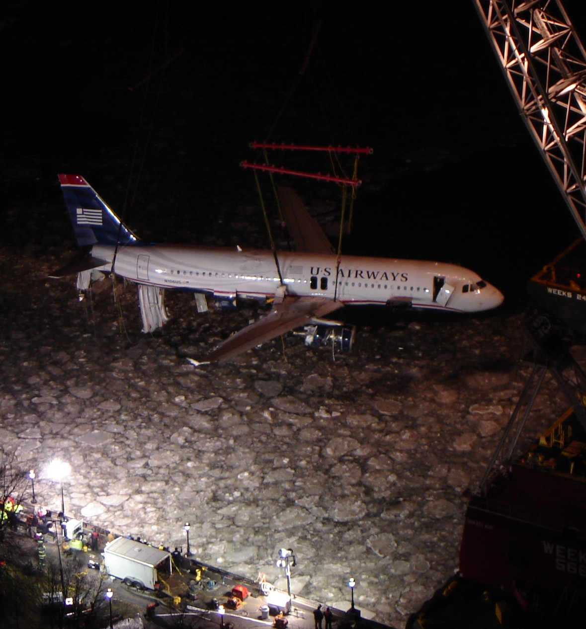 The wreck of US Airways Flight 1549 being lifted out of Hudson river, Battery Park City, New York, USA. Photo taken from downtown Manhattan, on 2009-01-17 at 21:35 EST